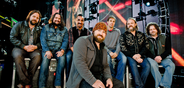 Zac Brown Band in July 2012 at Walmart Soundcheck.